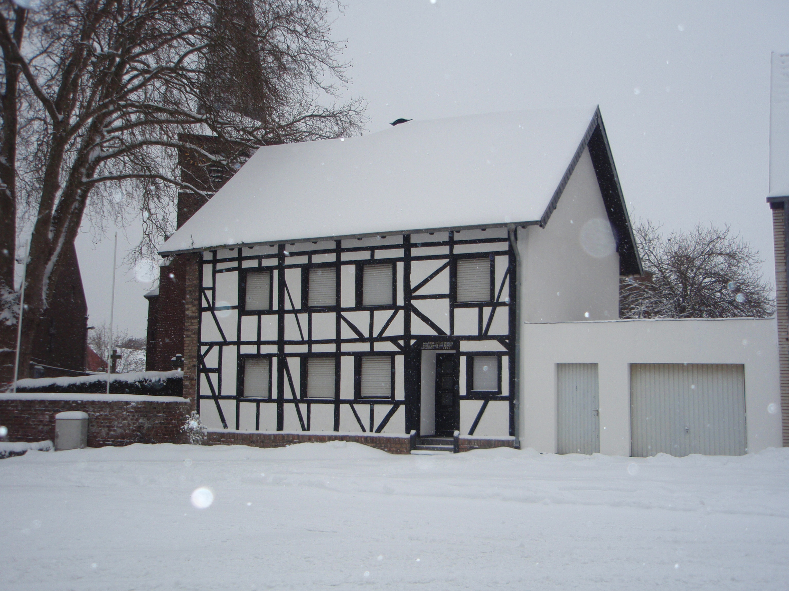 Fachwerkhaus im Zentrum von Grevenbroich-Neurath